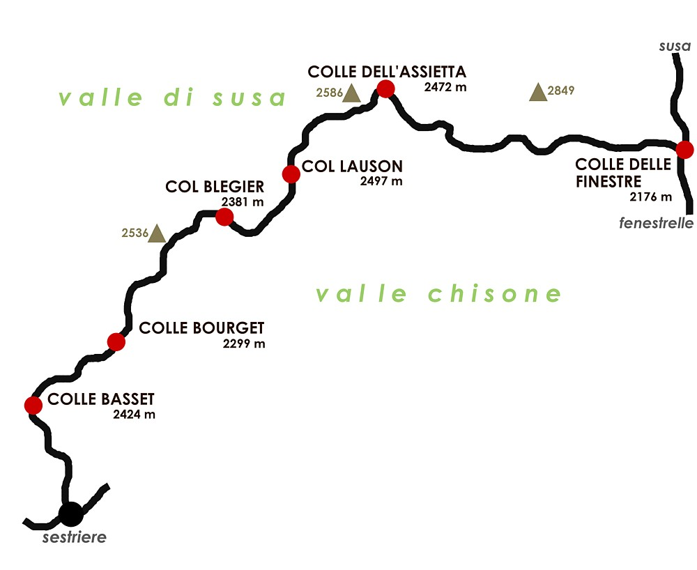 selfmade map of the Cresta dell'Assietta created august 2006